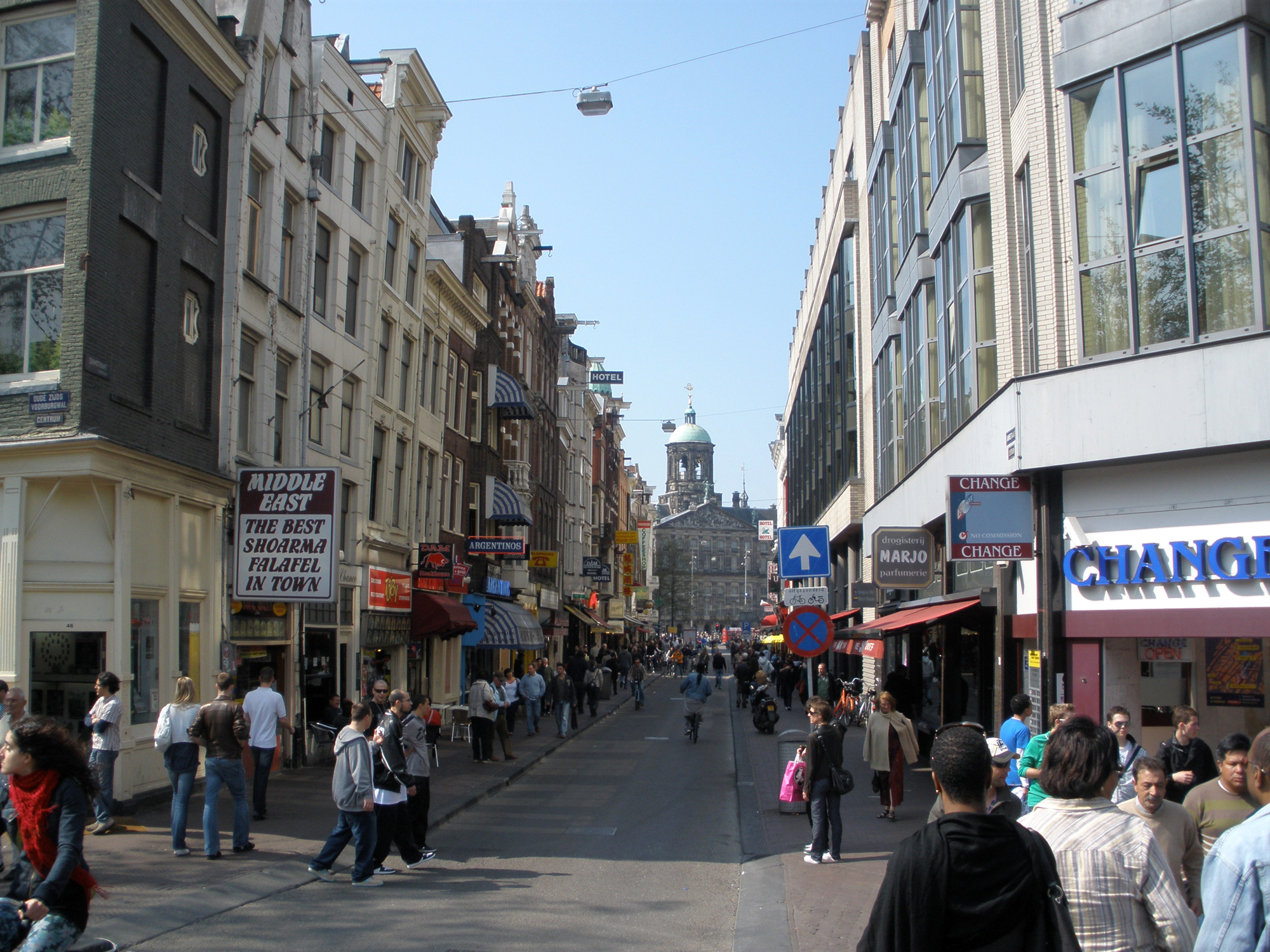 The Damstraat street in Amsterdam, looking west towards Dam square from the bridge over the Oudezijds Voorburgwal canal. In the distance, the Royal Palace can be seen.